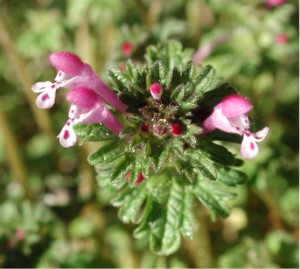 Lamium amplexicaule Image copyleft: Image taken by me, released under GFDL Pollinator 15:36, Jul 10, 2004 (UTC)